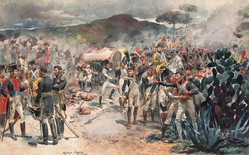 General Dupont surrenders his army to the Spanish at Bailén, an event that broke the myth of Napoleonic invincibility.